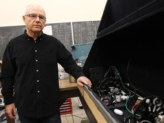 Professor Onel is at one of his labs at the University of Iowa.